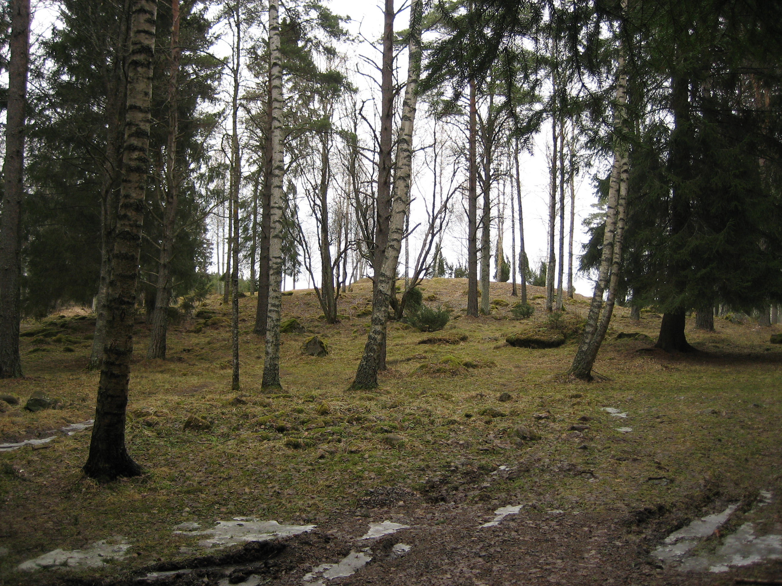 The Liinmaa Castle, former Vreghdenborch, at Linnamaa village, Eurajoki, Finland. The castle was active in the late 14th, early 15th century. The photograph shows the fortifications from the outside.